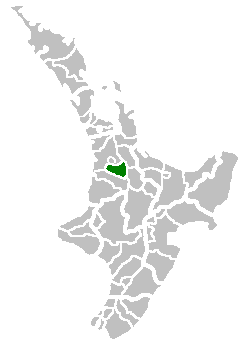 Waipa Territorial Authority. Waipa District.